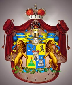 Coat of Arms of Jevahov family